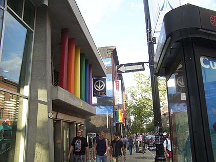 Montreal's Gay Village, near the Beaudry metro station.